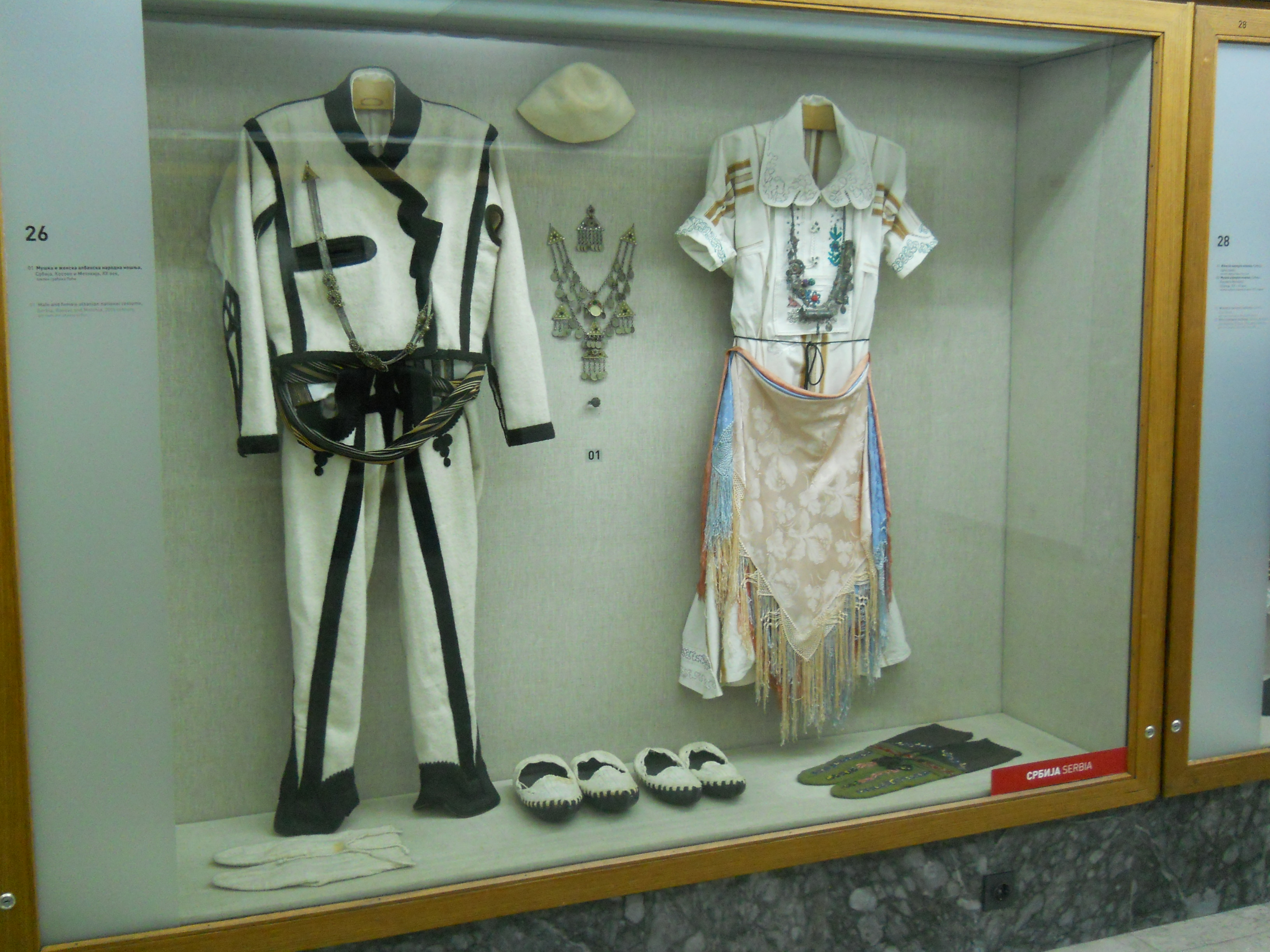 belgrade serbia the old museum (15)